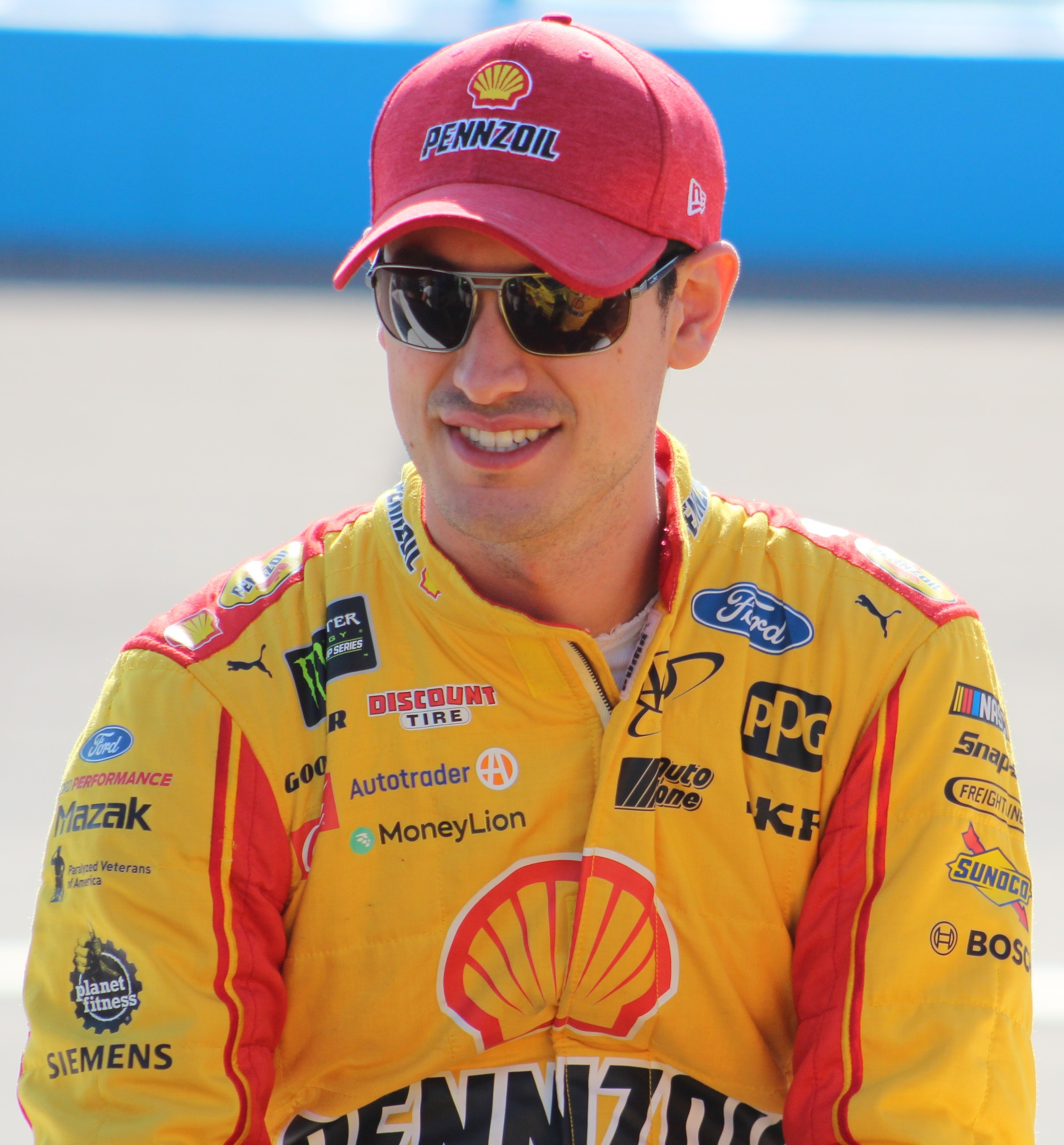 Joey Logano at ISM Raceway in 2018